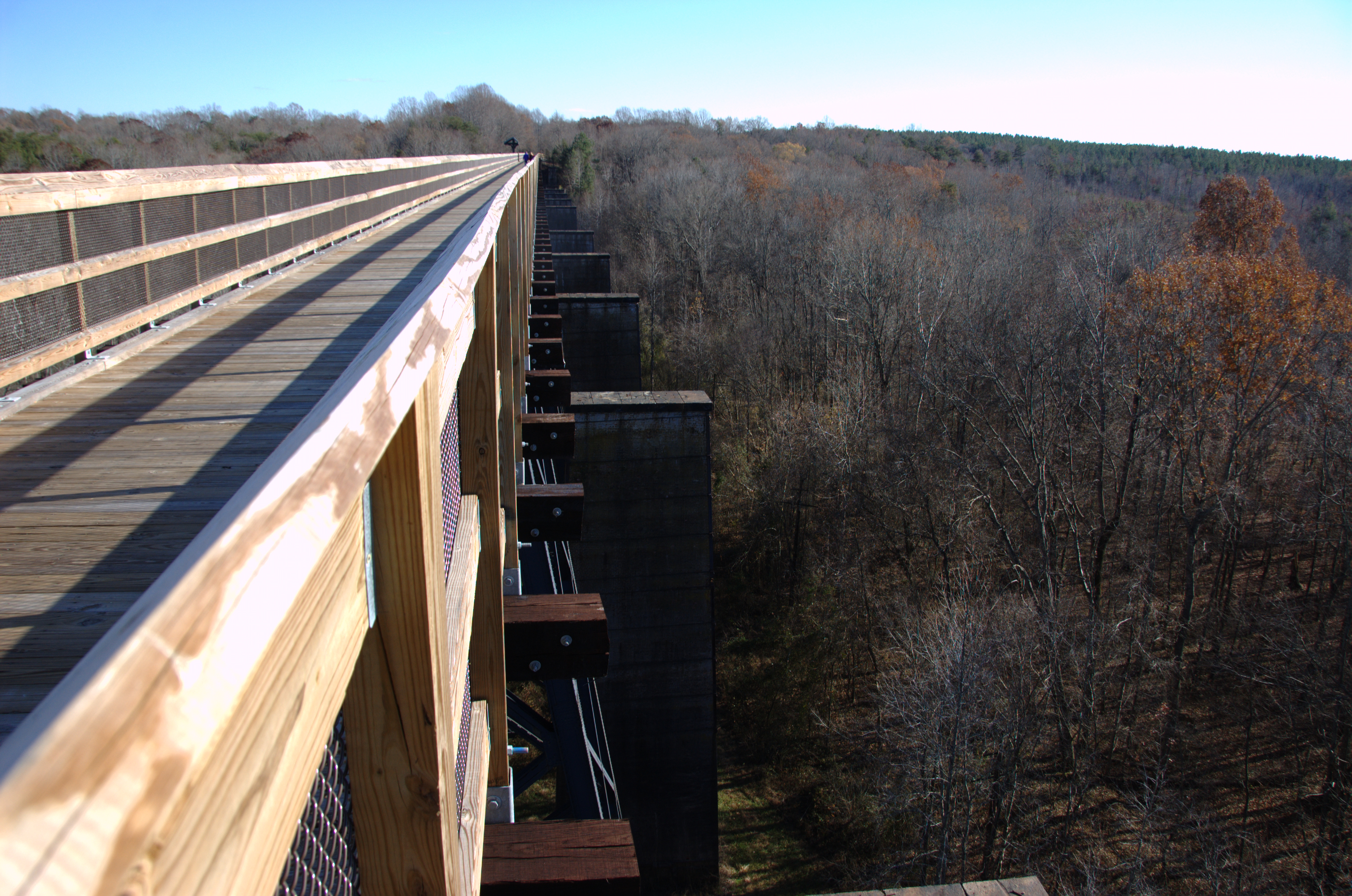 High Bridge at High Bridge Trail State Park, near Farmville, VA. Photograph taken 24 Nov. 2012 around 3 PM facing southeast.